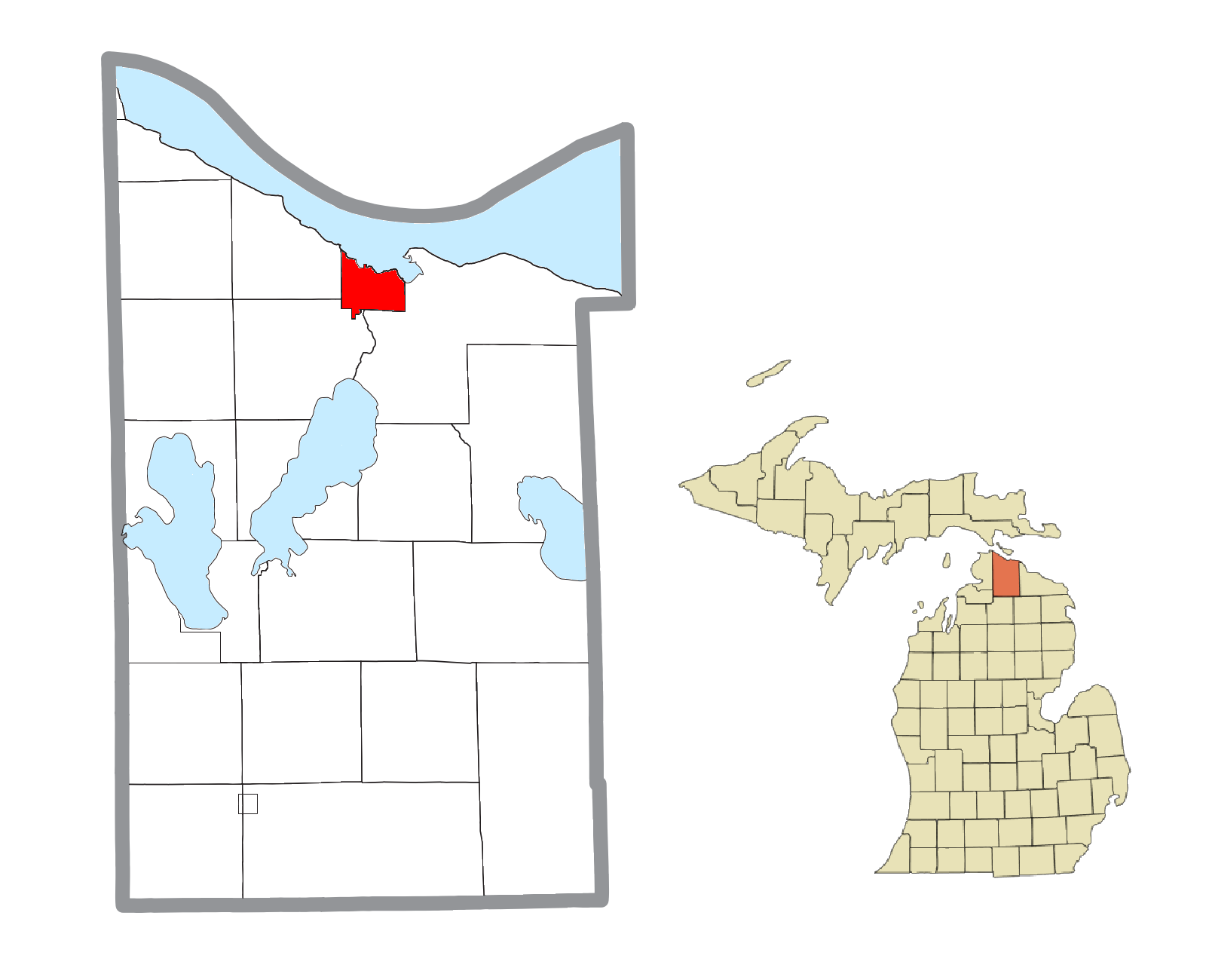 Cheboygan, MI